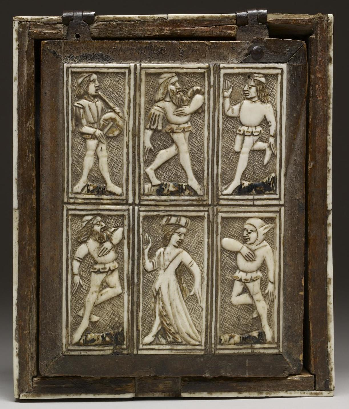 Board games, such as chess, checkers, and backgammon, were increasingly popular in Europe during the later Middle Ages, after it had been brought back by crusading knights from the Near East. Portable chess boxes with scenes of hunting, dancing, and courtship were mass-produced in inexpensive materials to contain the game pieces. The playing board is set into the box's underside.